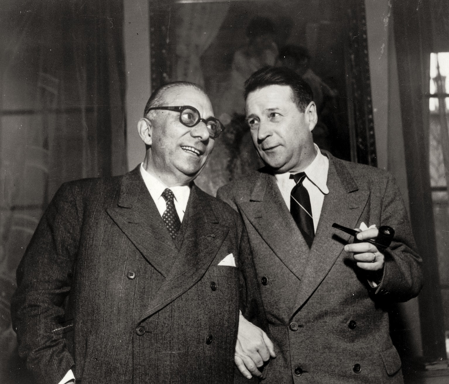 Italian publisher Arnoldo Mondadori with French author Georges Simenon.